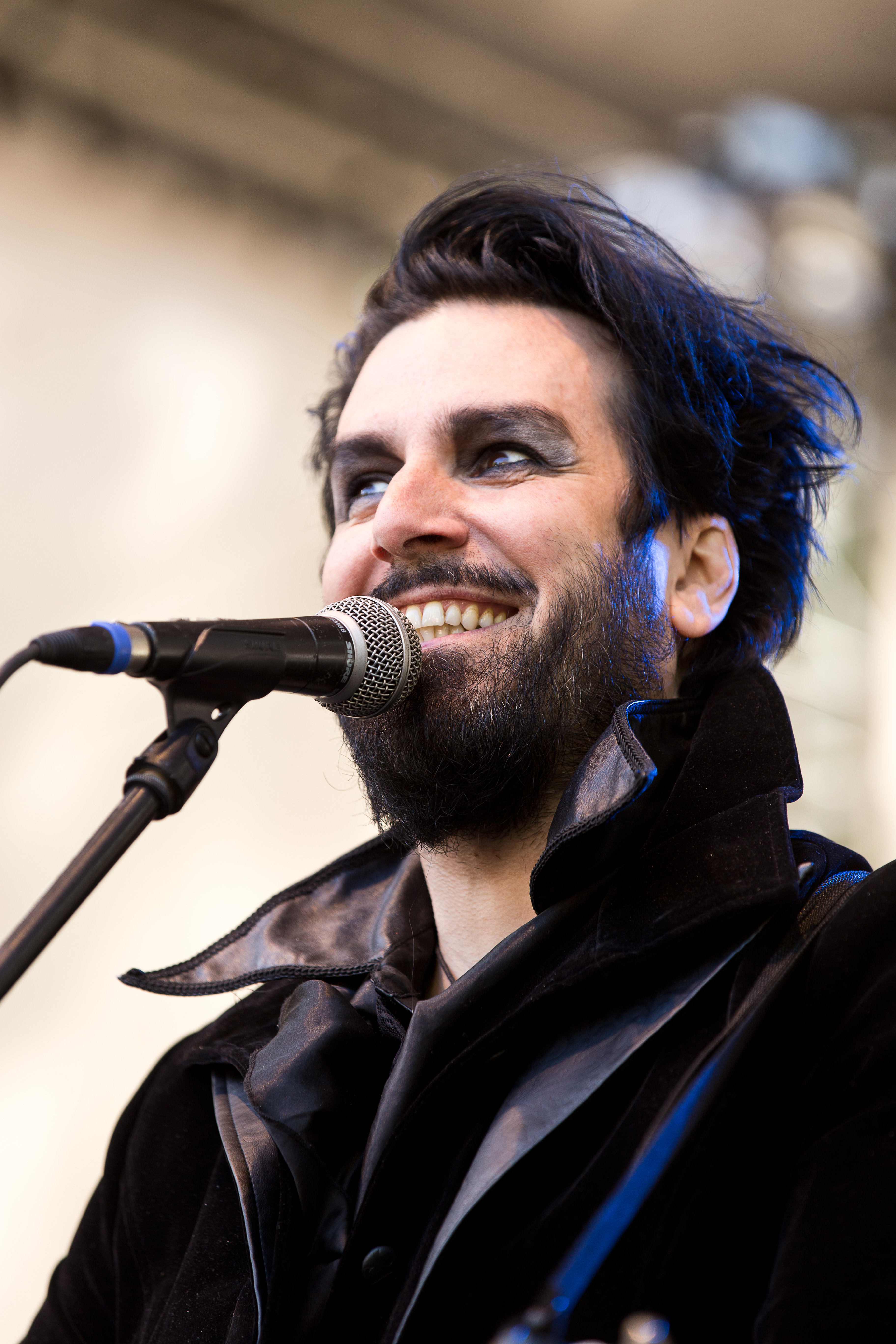 The American musician Aurelio Voltaire at the 25. Wave-Gotik-Treffen 2016 in Leipzig/Germany.